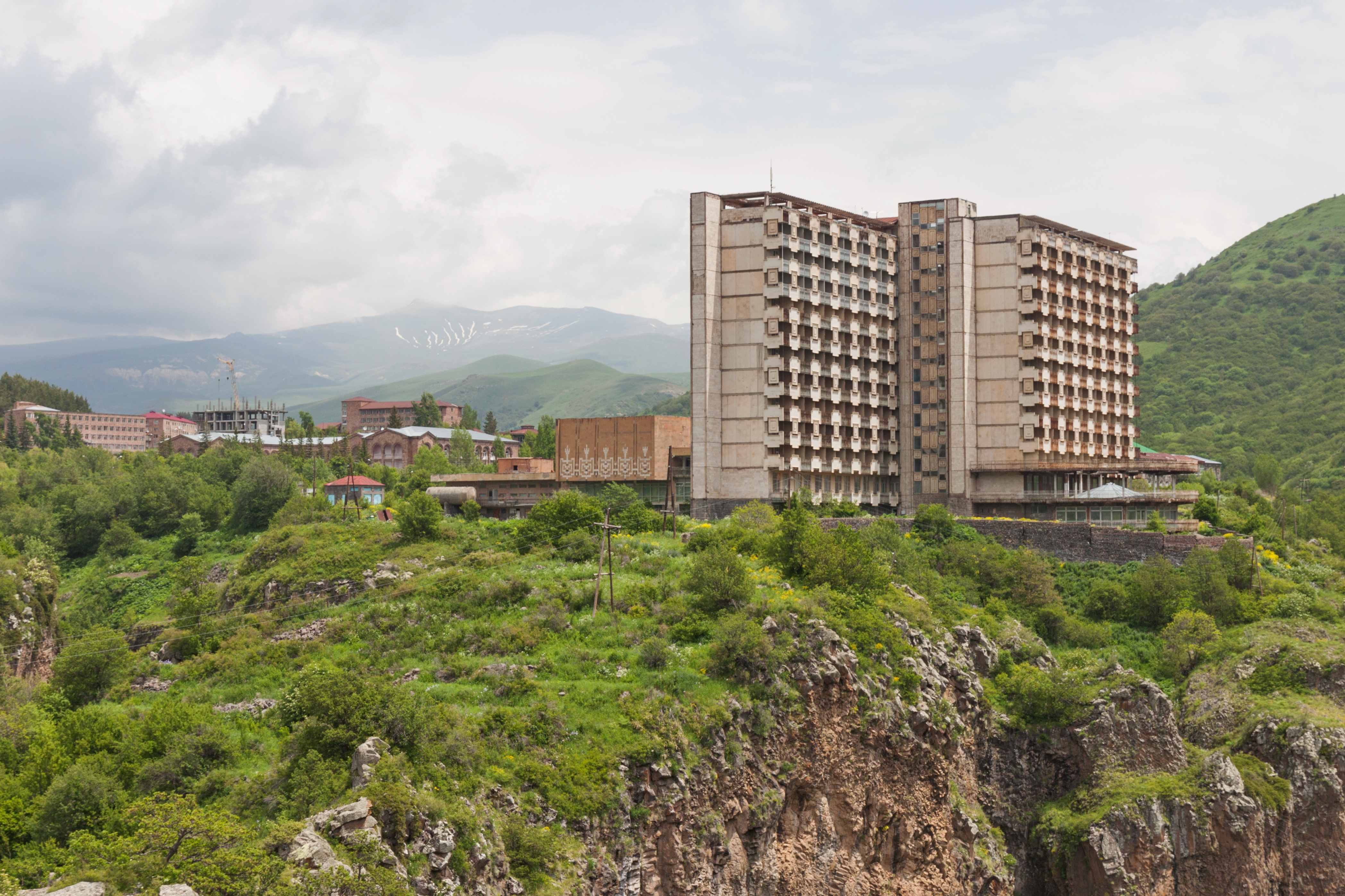 The view from the bridge over the Arpa river - Gladzor Spa Hotel. Jermuk, Vayots Dzor Province, Armenia.